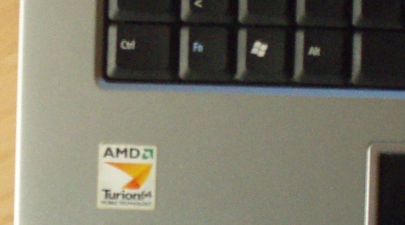 Laptop with AMD Turion 64 inside